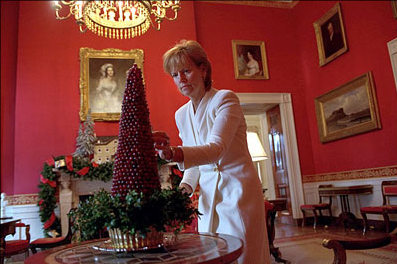 Assistant White House Floral Designer Wendy Elsasser makes final adjustments to the cranberry topiary tree in the Red Room.